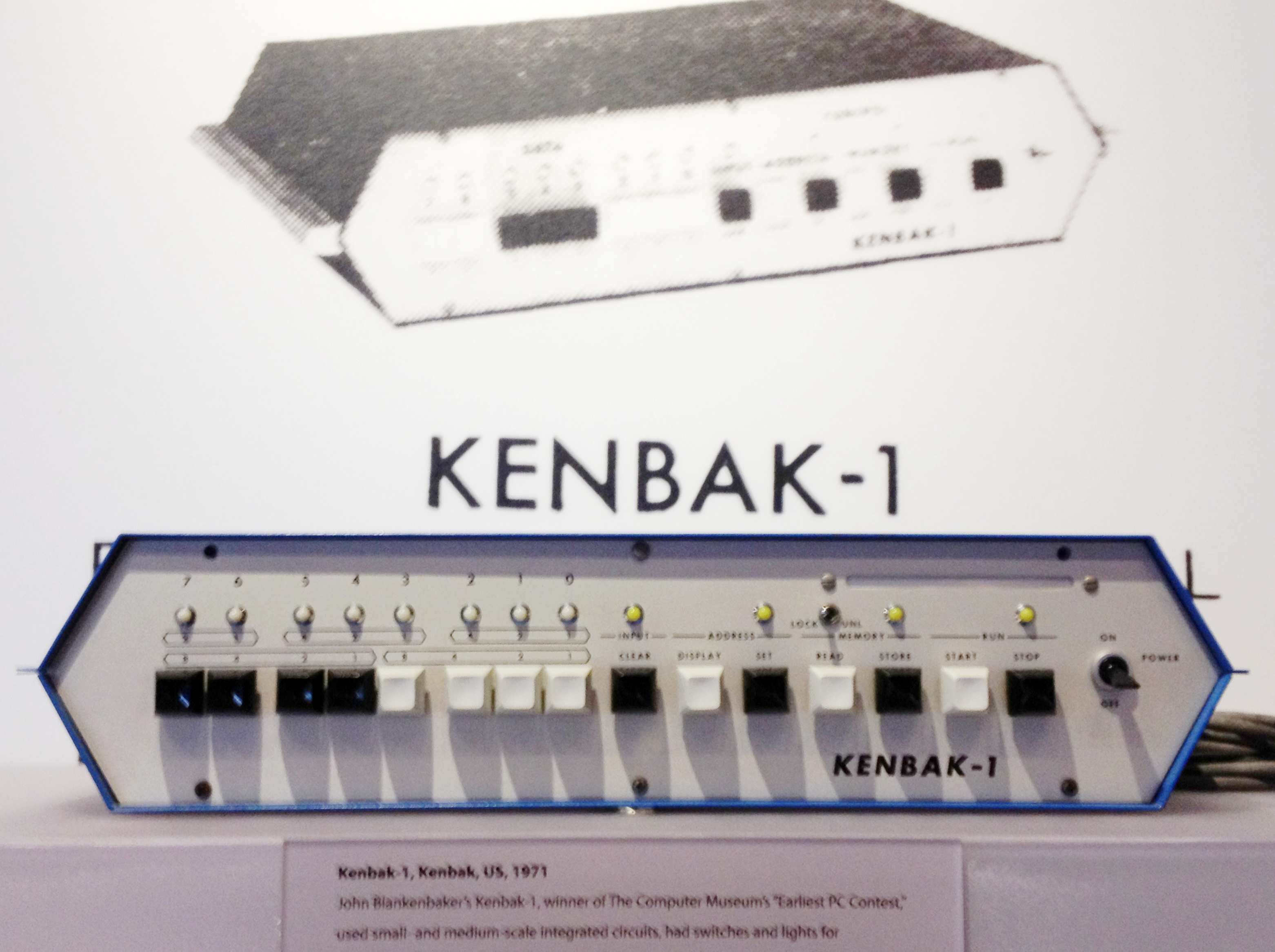 Kenbak 1 1973. World's first commercial personal computer, Computer History Museum, Mountain View, California